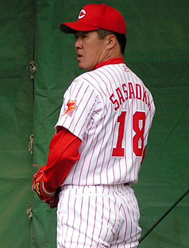 Shinji Sasaoka, pitcher of the Hiroshima Toyo Carp, at Nichinan Tempuku Baseball Stadium.